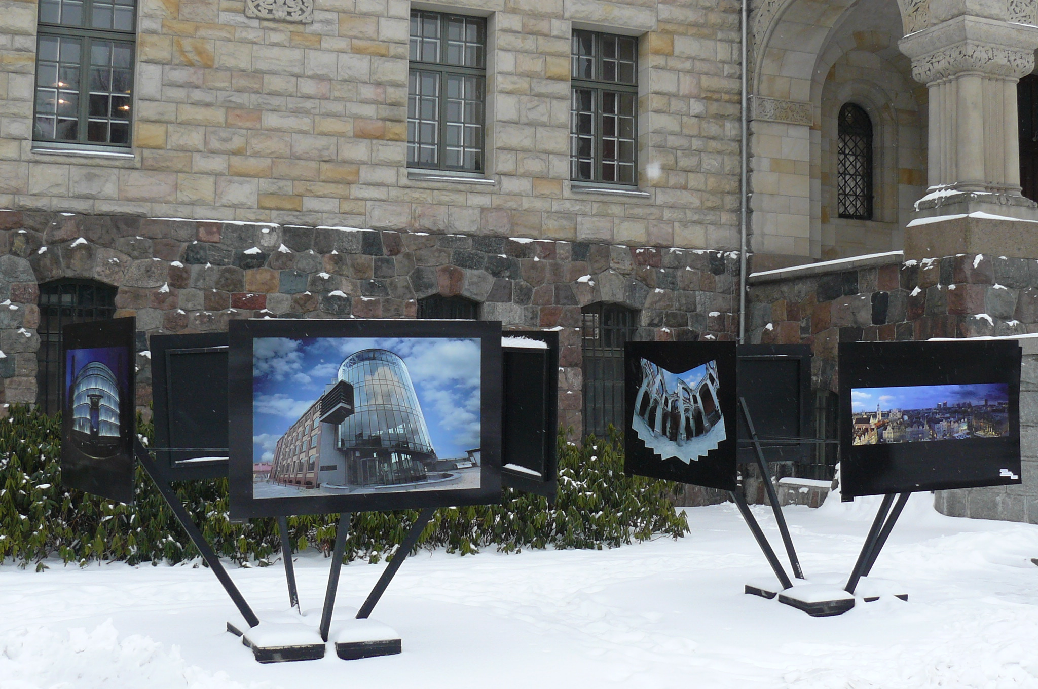 Poznan - exchibition of Ryszard Horowitz